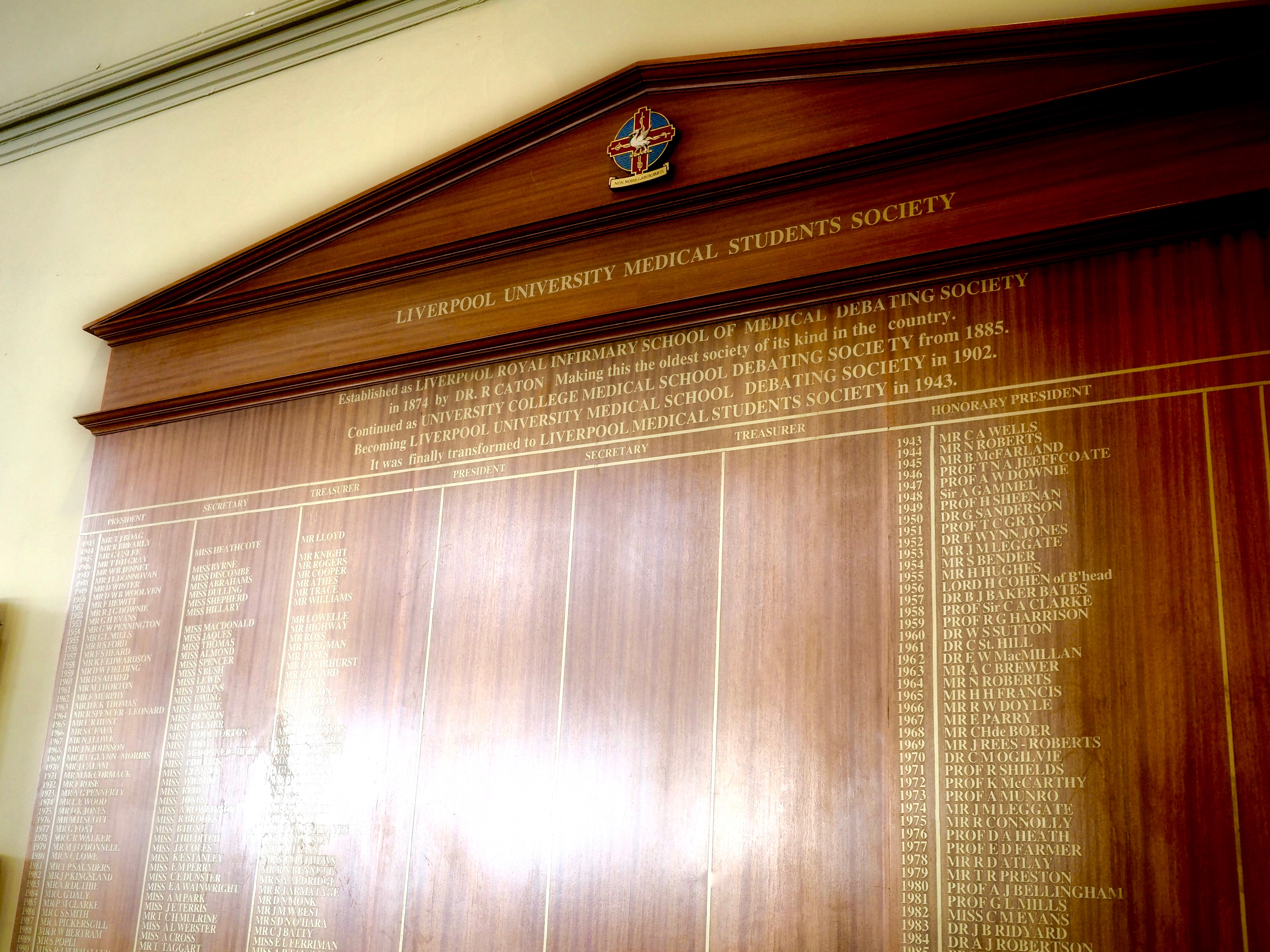 The board of all Officers and Honorary Presidents of M.S.D.S, M.S.S, and L.M.S.S from 1943 and the History of the Society from 1874